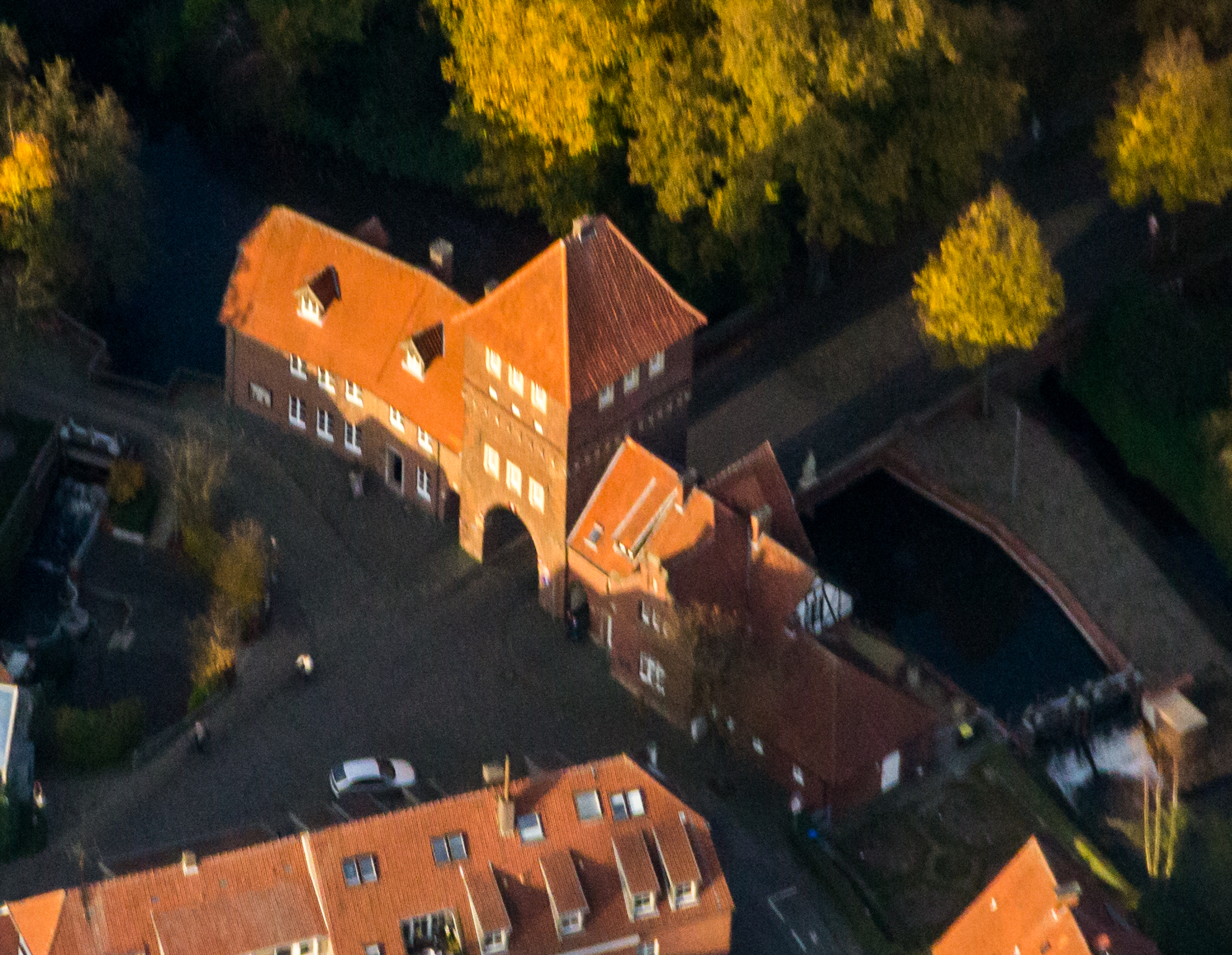 Walkenbrückentor, Coesfeld, North Rhine-Westphalia, Germany